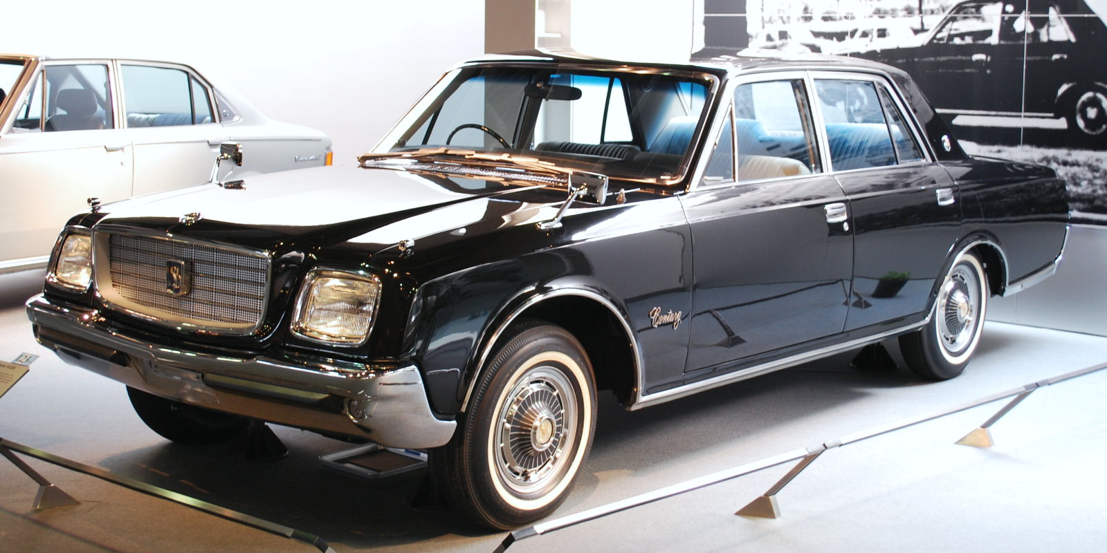 1st generation Toyota_Century Model VG20